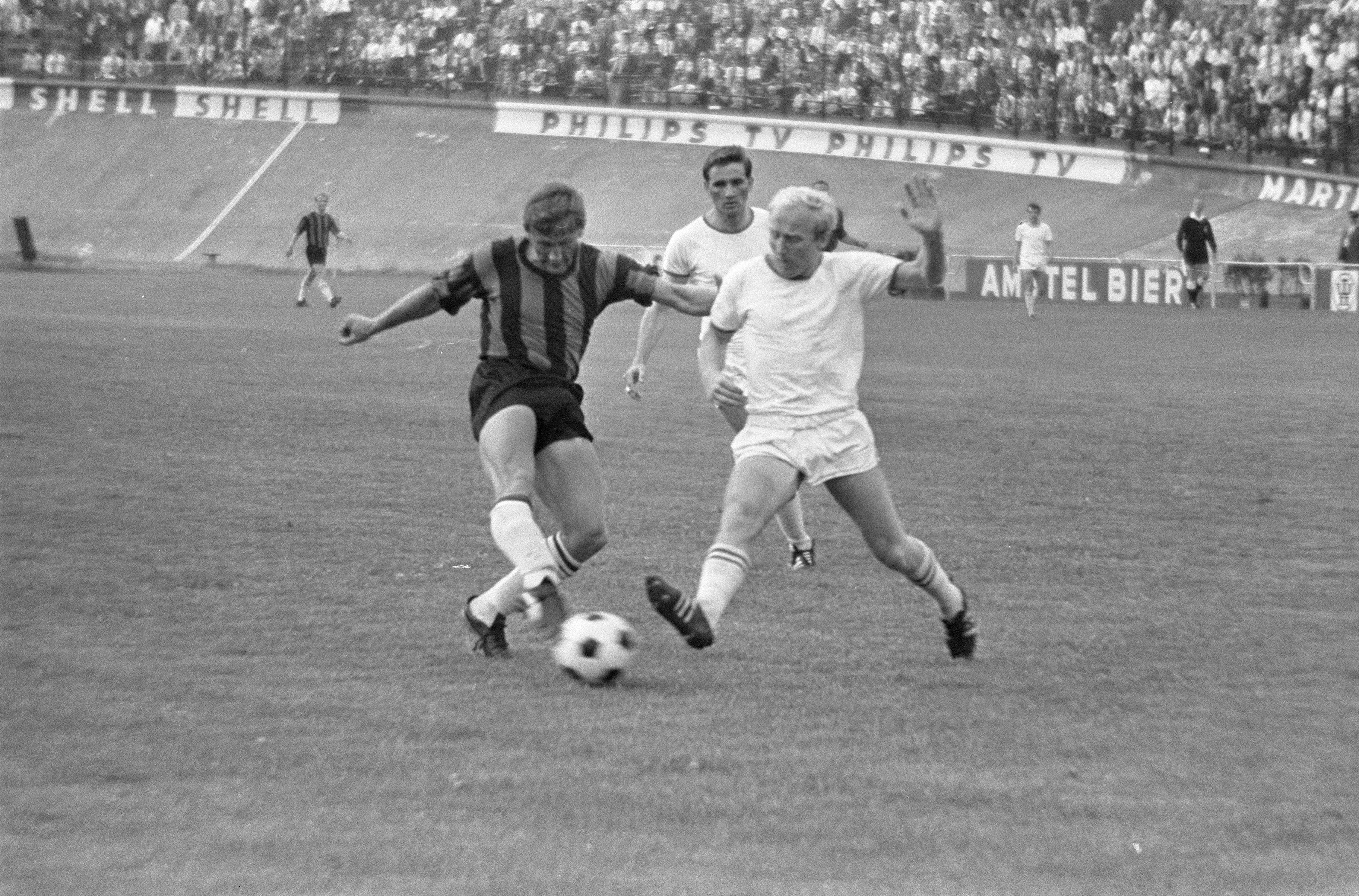 Door Wilskracht Sterk against RC Strasbourg in en:1966–67 Intertoto Cup